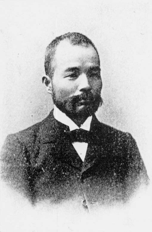 Mr. Seizō Morimoto, professor of the Higher Normal School and superintendent of the Elementary School attached to the School.